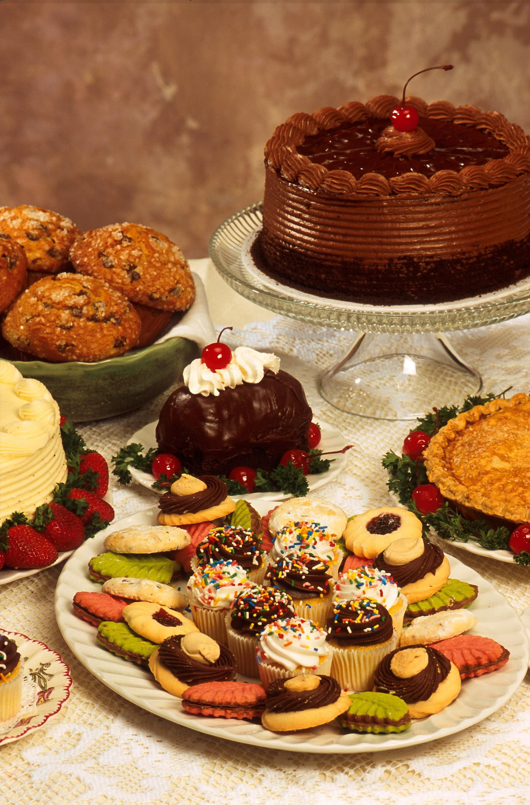 Image title: Baked goods and sweets Image from Public domain images website